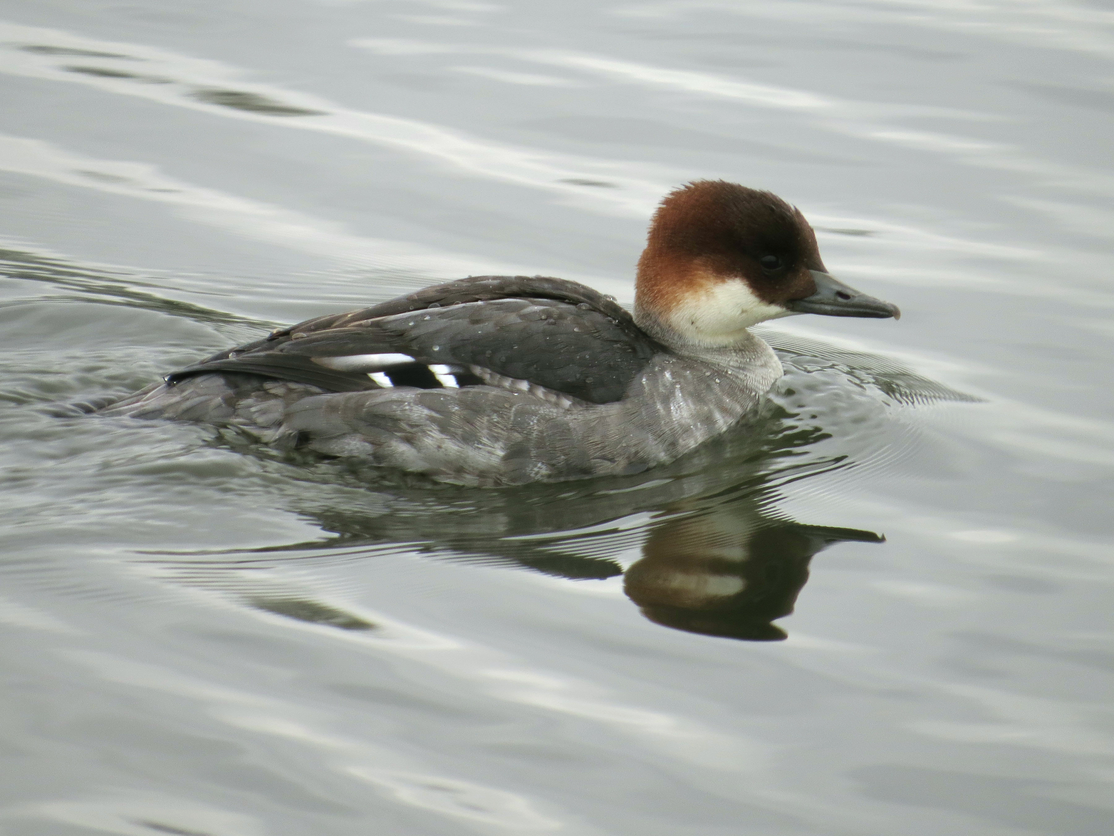 Smew Mergellus albellus ♀, Killingworth Lake, Northumberland.